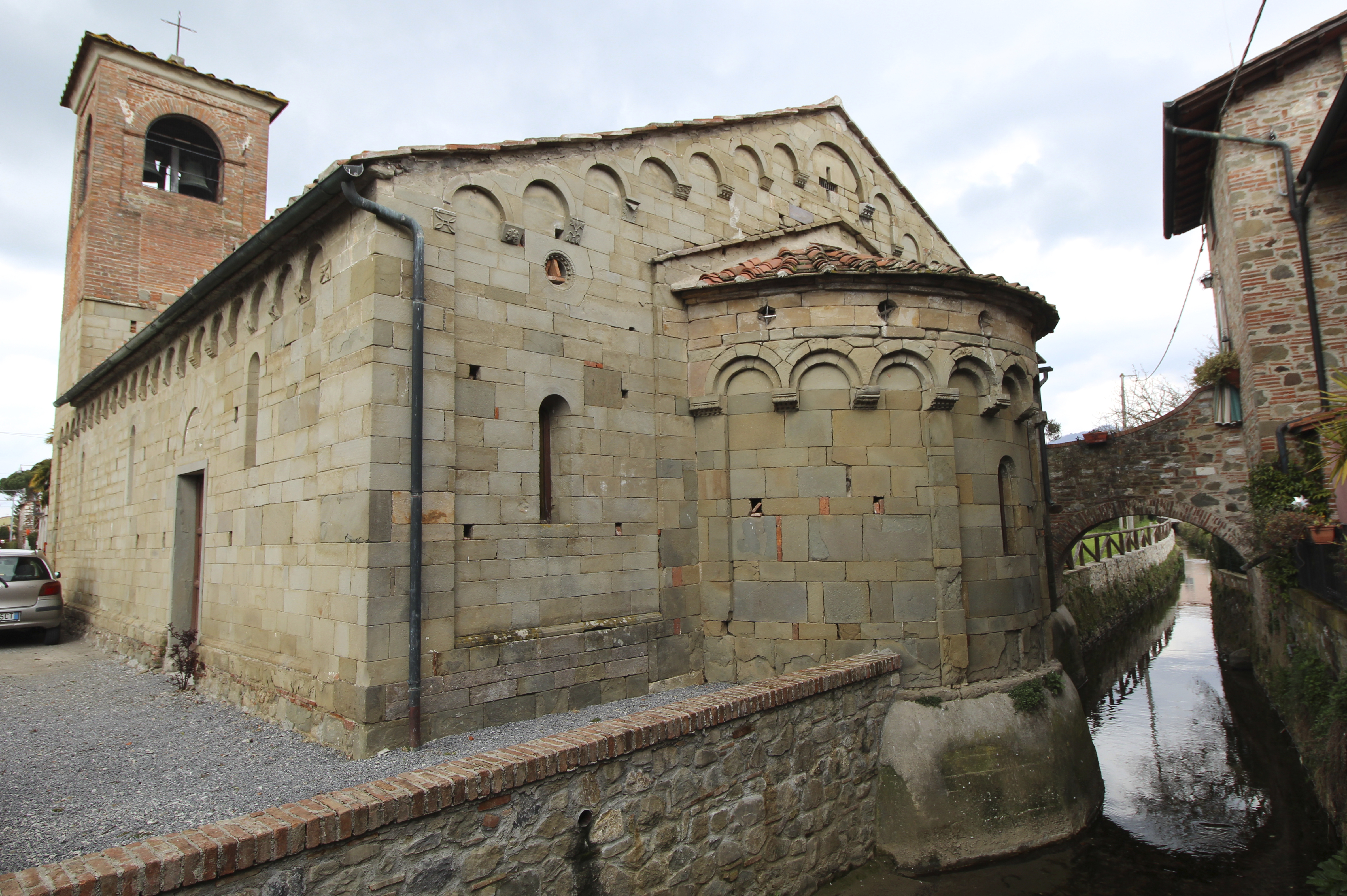 Church San Cristoforo, Lammari, hamlet of Capannori, Province of Lucca, Tuscany, Italy